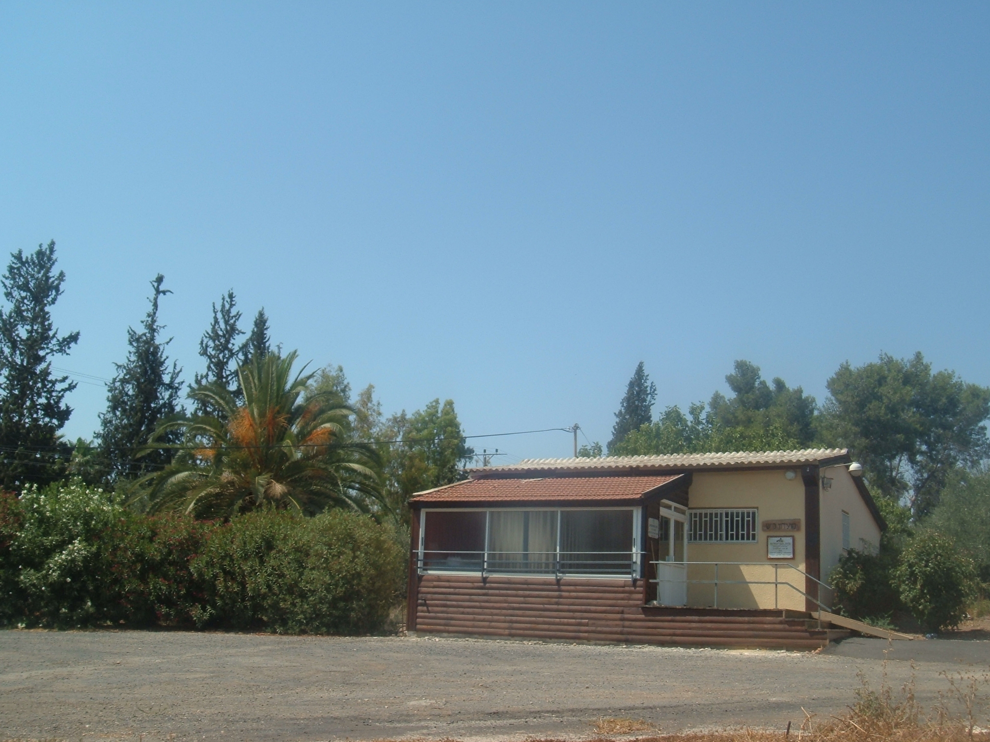 Founders House in Kfar Kish, Israel בית המייסדים בכפר קיש, ישראל